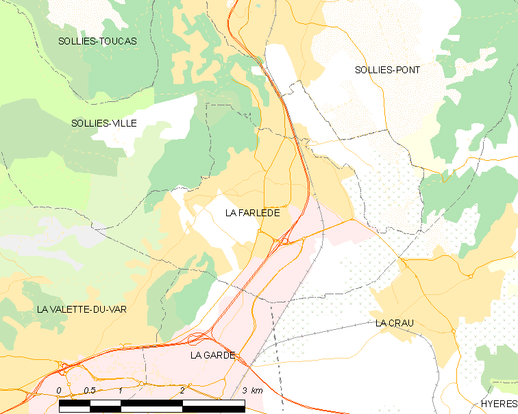 Map of French municipality La Farlède